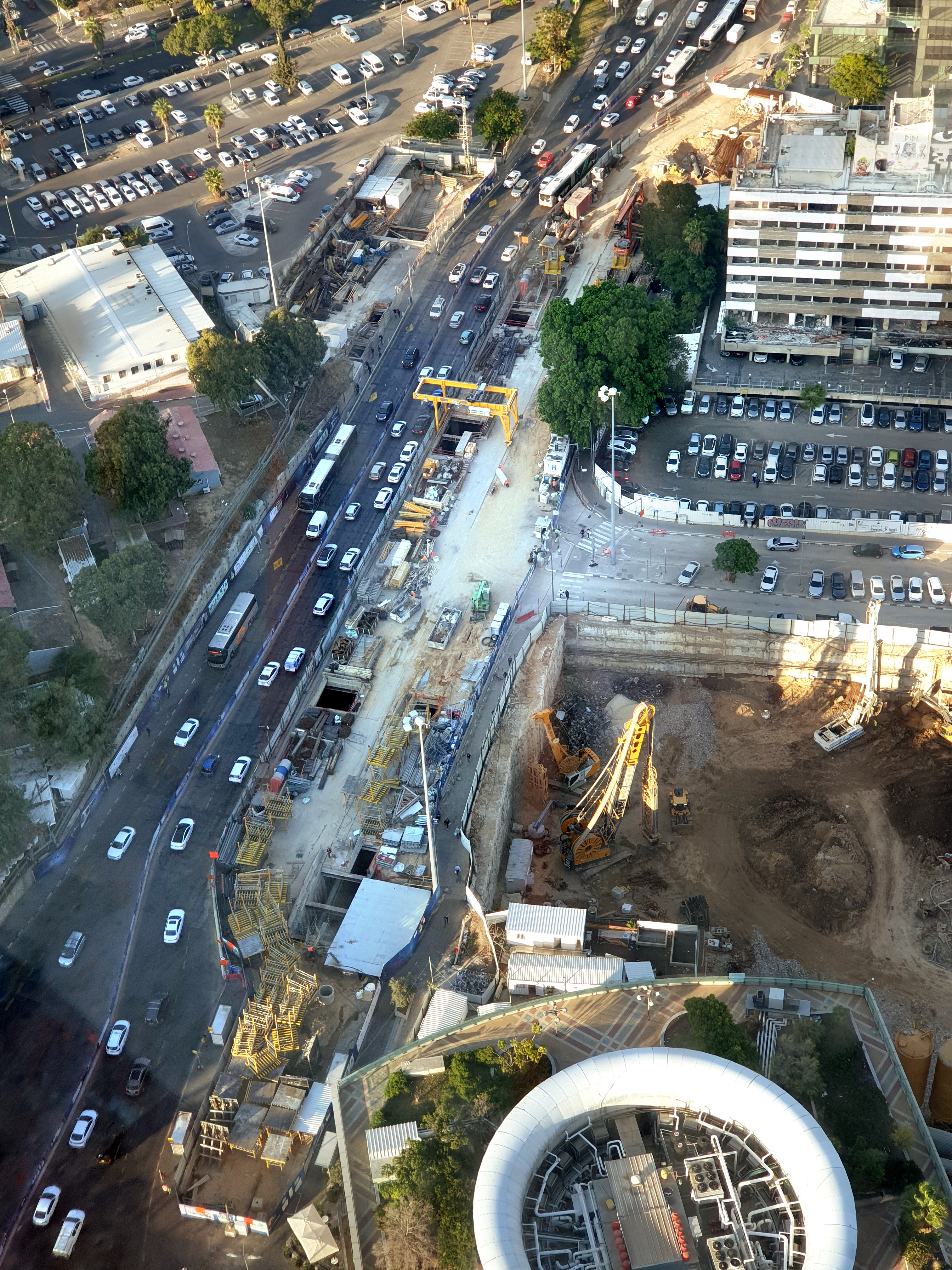 Construction of the Tel Aviv Light Rail: Red Line. Shaul HaMelekh Station on Menakhem Begin Road, Tel Aviv.